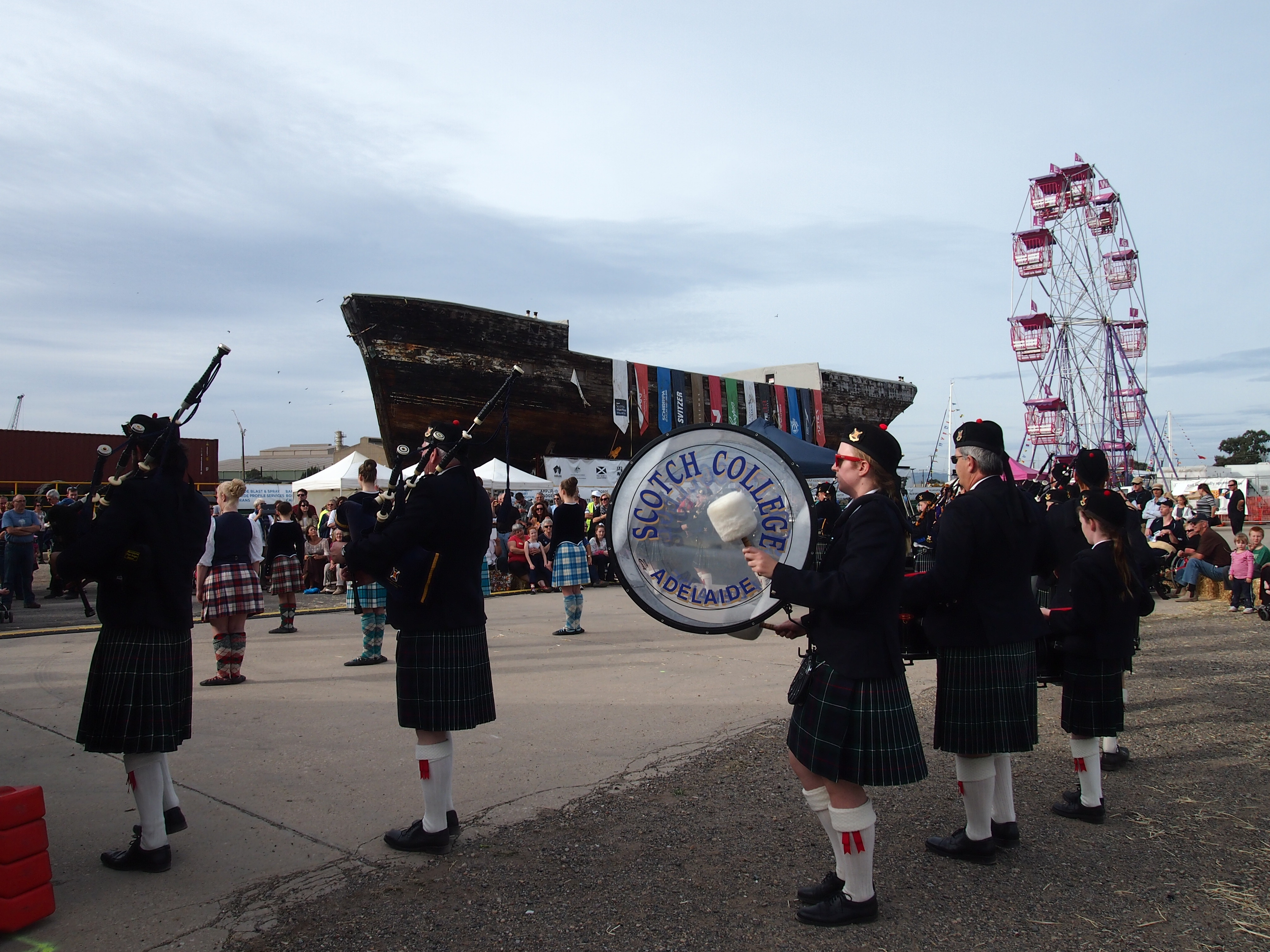 Celebrating the City of Adelaide's 150th anniversaryOriginal filename = P5172210.JPG